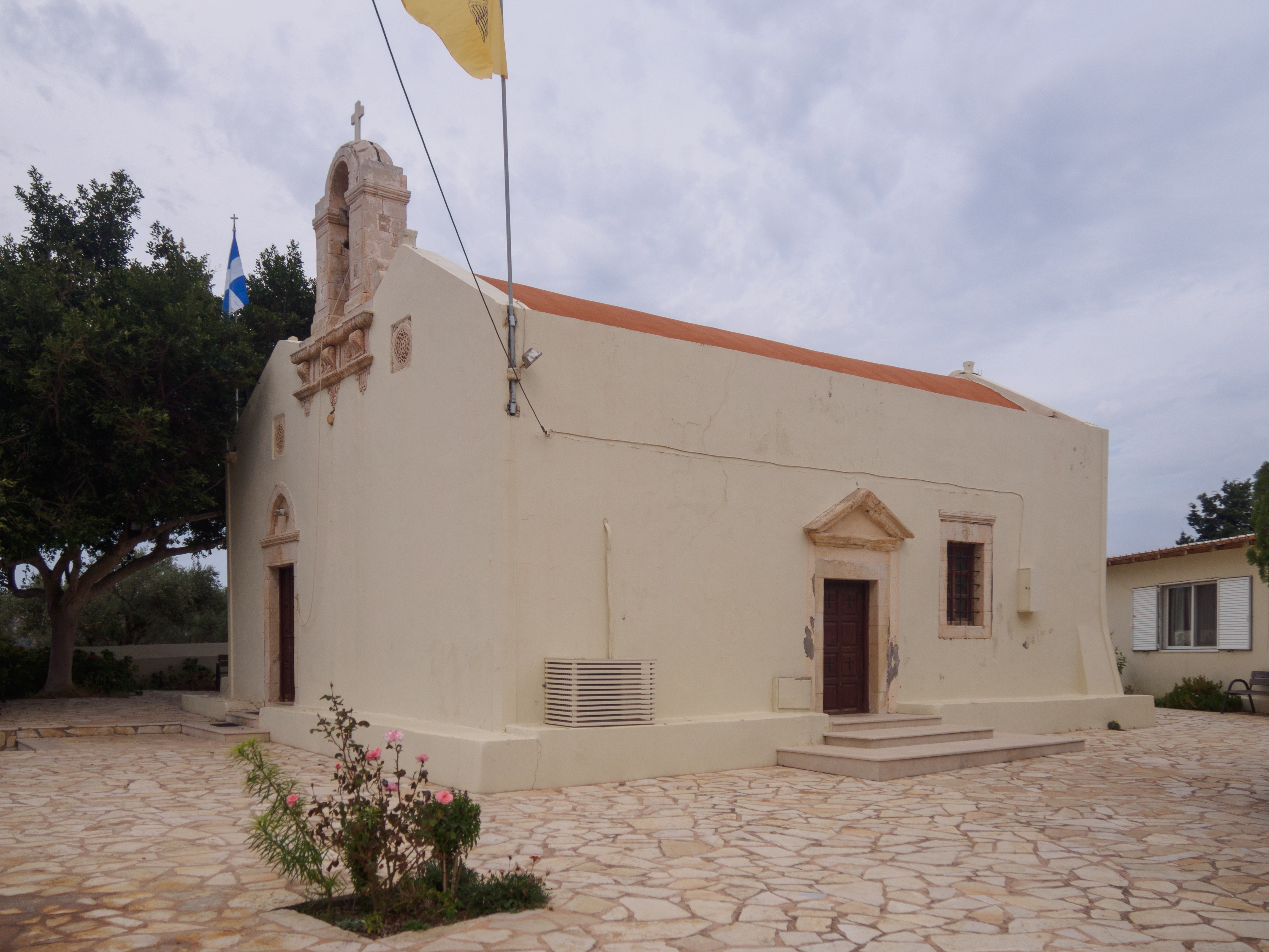 The church of Mary in Skepasti, Mylopotamos. It was built between 1586 and 1592.